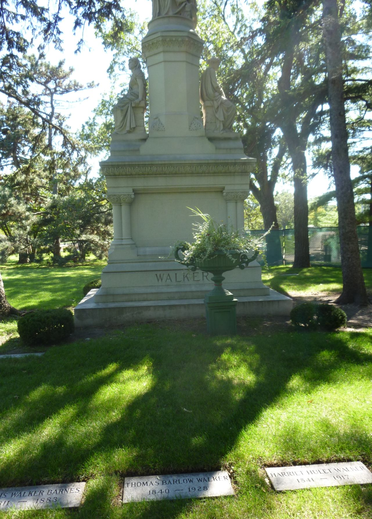 Monument for the Walker family to the right of the entrance to Lakewood Cemetery in Minneapolis. T. B. Walker and Harriet Hulet Walker graves are in foreground.